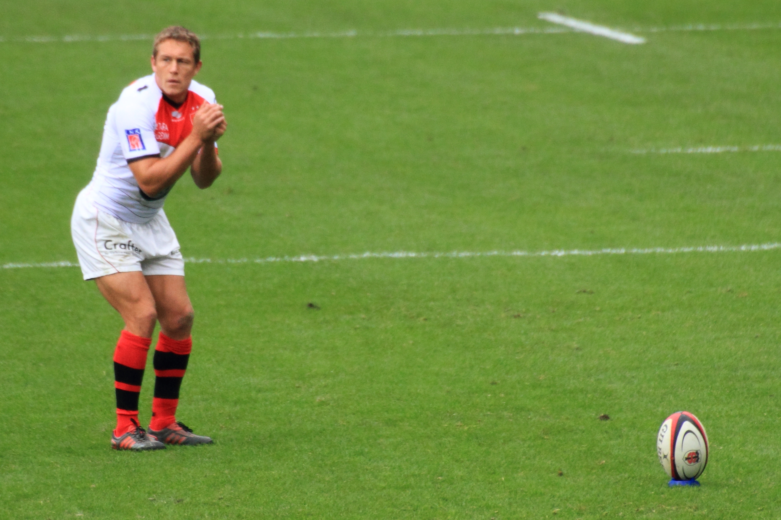 Top 14 — 3 December 2011, Stadium. Match between: Stade toulousain — RC Toulon